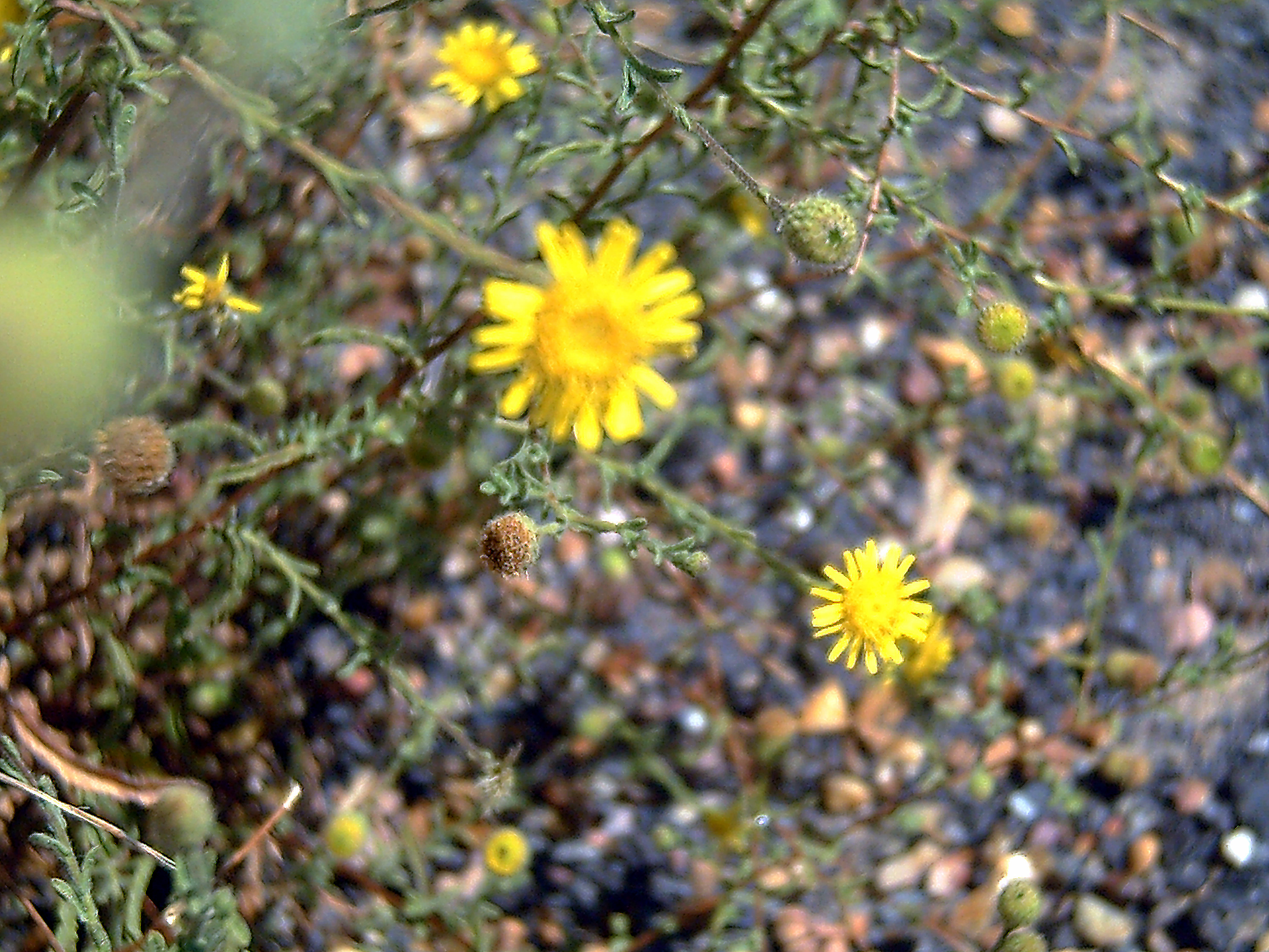 Dittrichia graveolens flowers close up, Dehesa Boyal de Puertollano, Spain